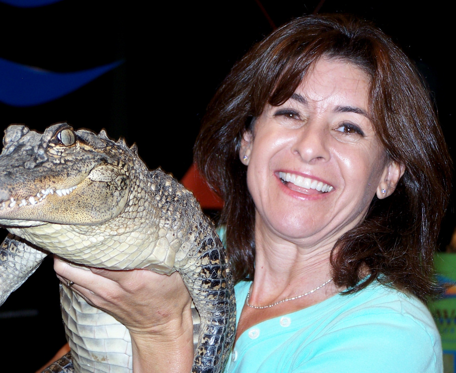 Julie Scardina and Bob the alligator at the Texas Parks and Wildlife Expo held at the Texas Parks and Wildlife Headquarters, Austin, Texas, United States.